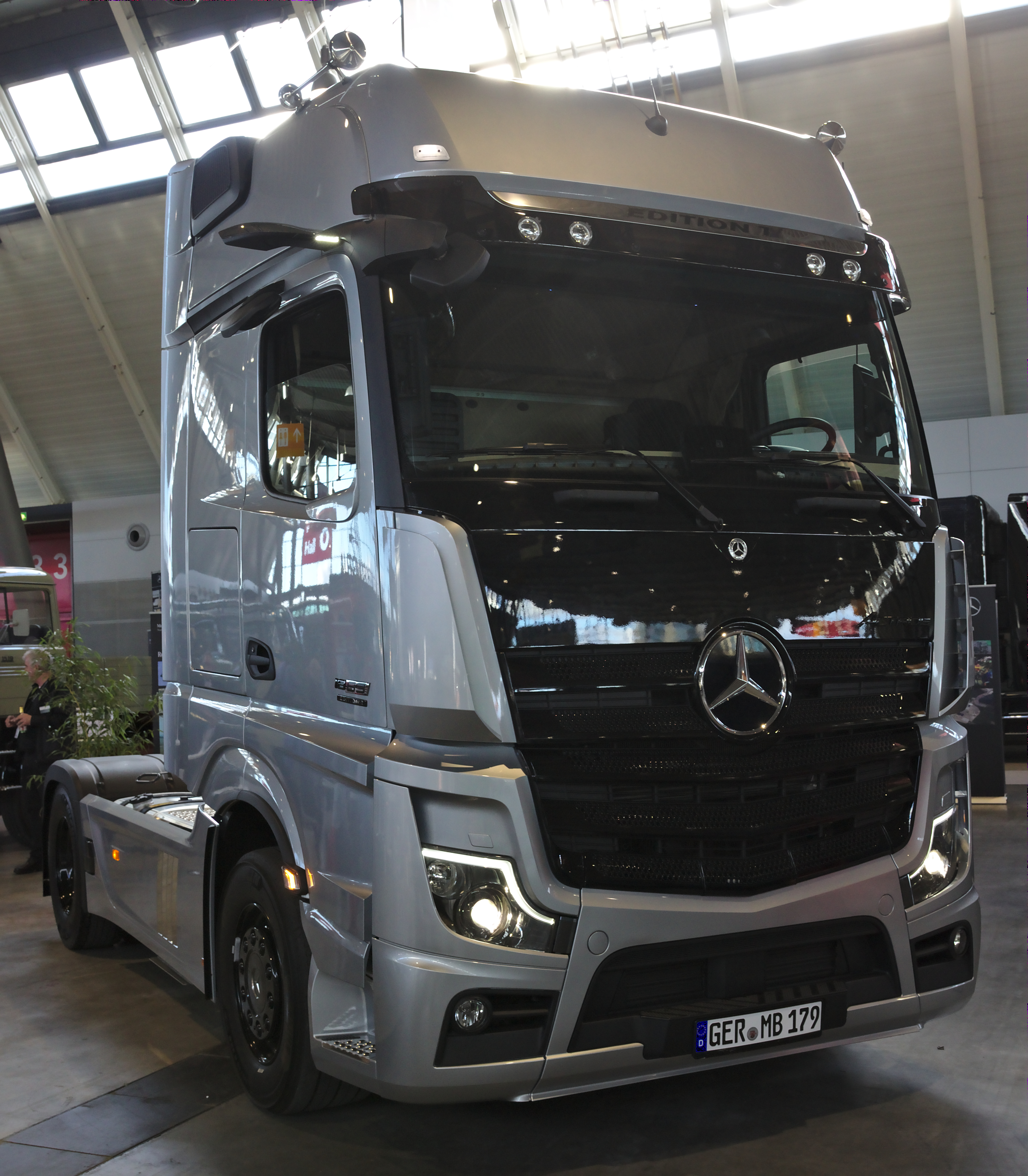 Mercedes-Benz Actros at Retro Classics 2019